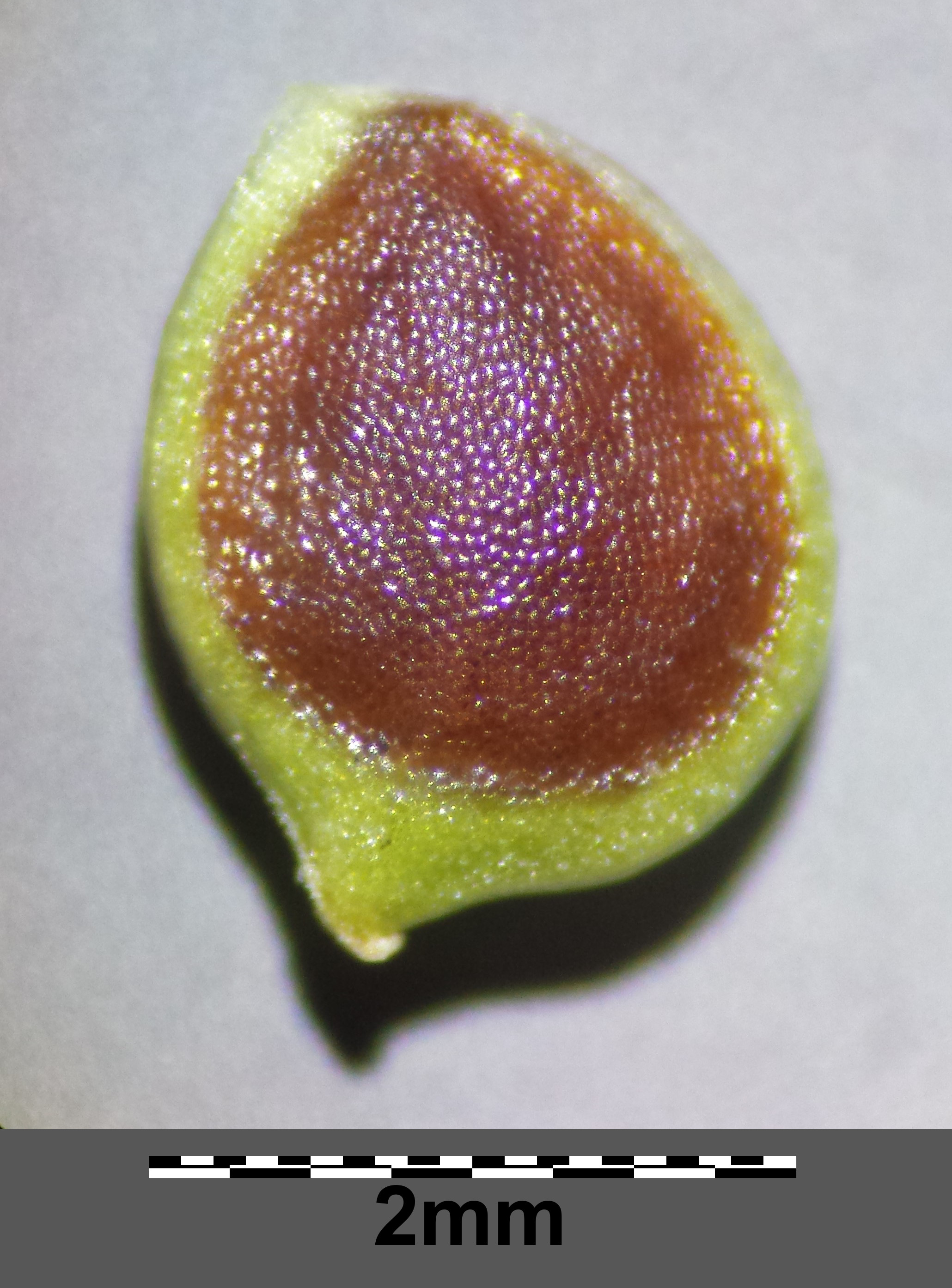 Nutlet Taxonym: Ranunculus sardous subsp. sardous ss Fischer et al. EfÖLS 2008 ISBN 978-3-85474-187-9 Location: Jedleseer Friedhof, Vienna-Floridsdorf - ca. 160 m a.s.l. Habitat: grave